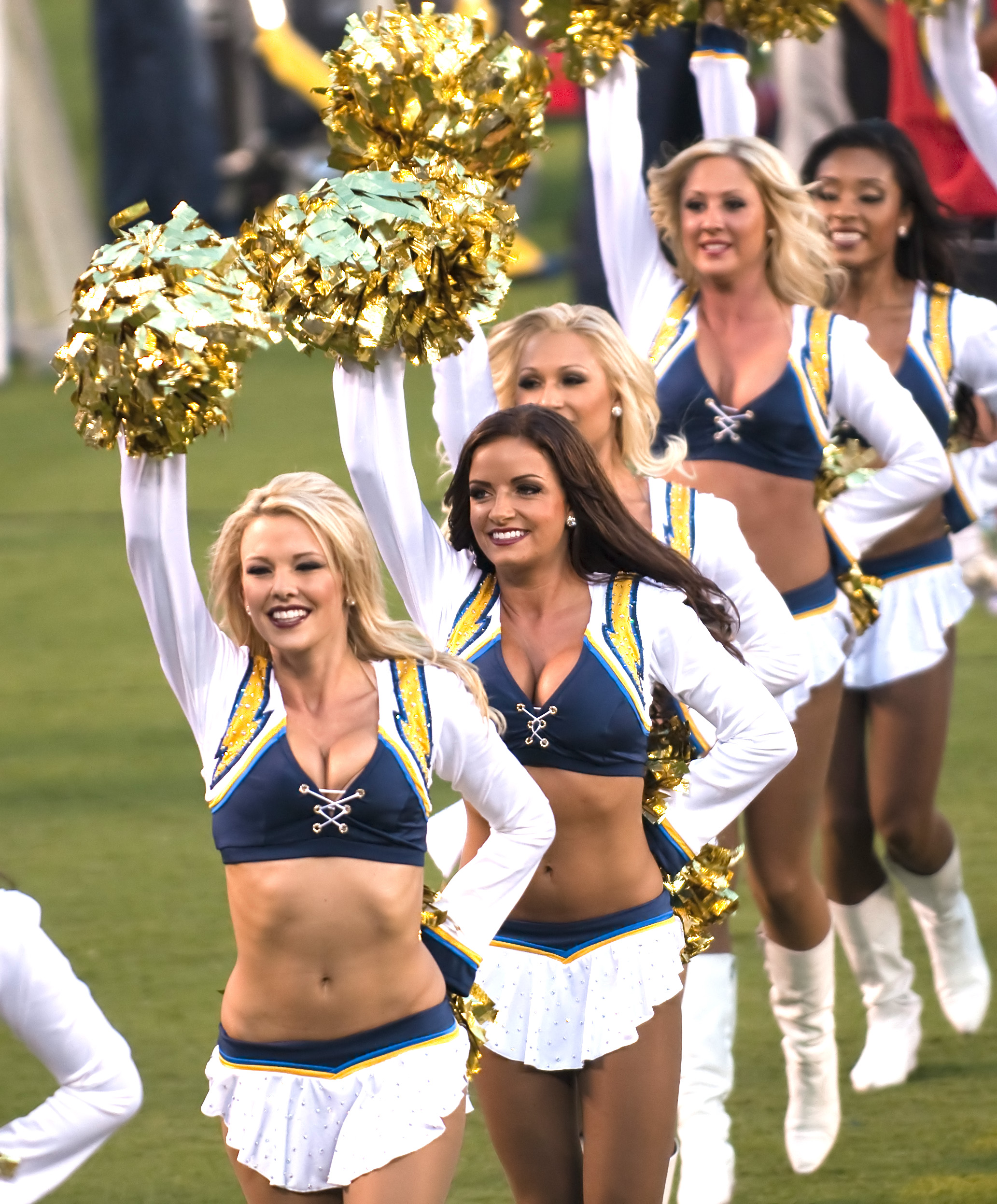 Charger Cheerleaders